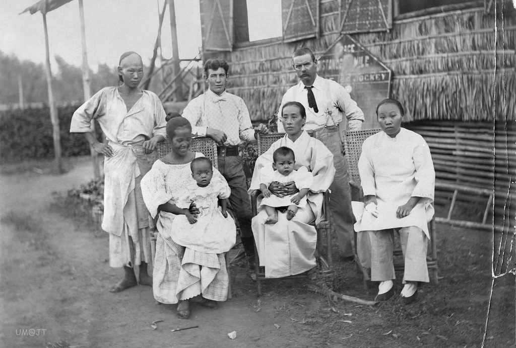 Filipina, Chinese, Europeans and Japanese living in the Philippines